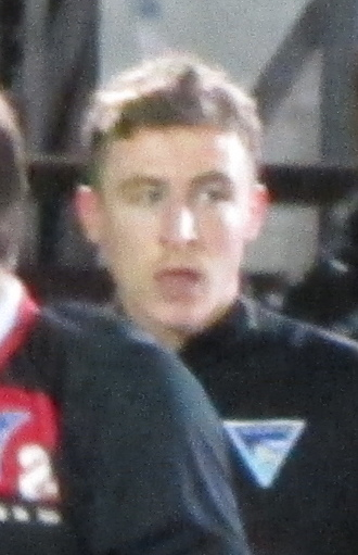 Ryan Williamson, Tom Beadling, Nat Wedderburn pre-match for Dunfermline Athletic at Glebe Park, Brechin (20/03/18)